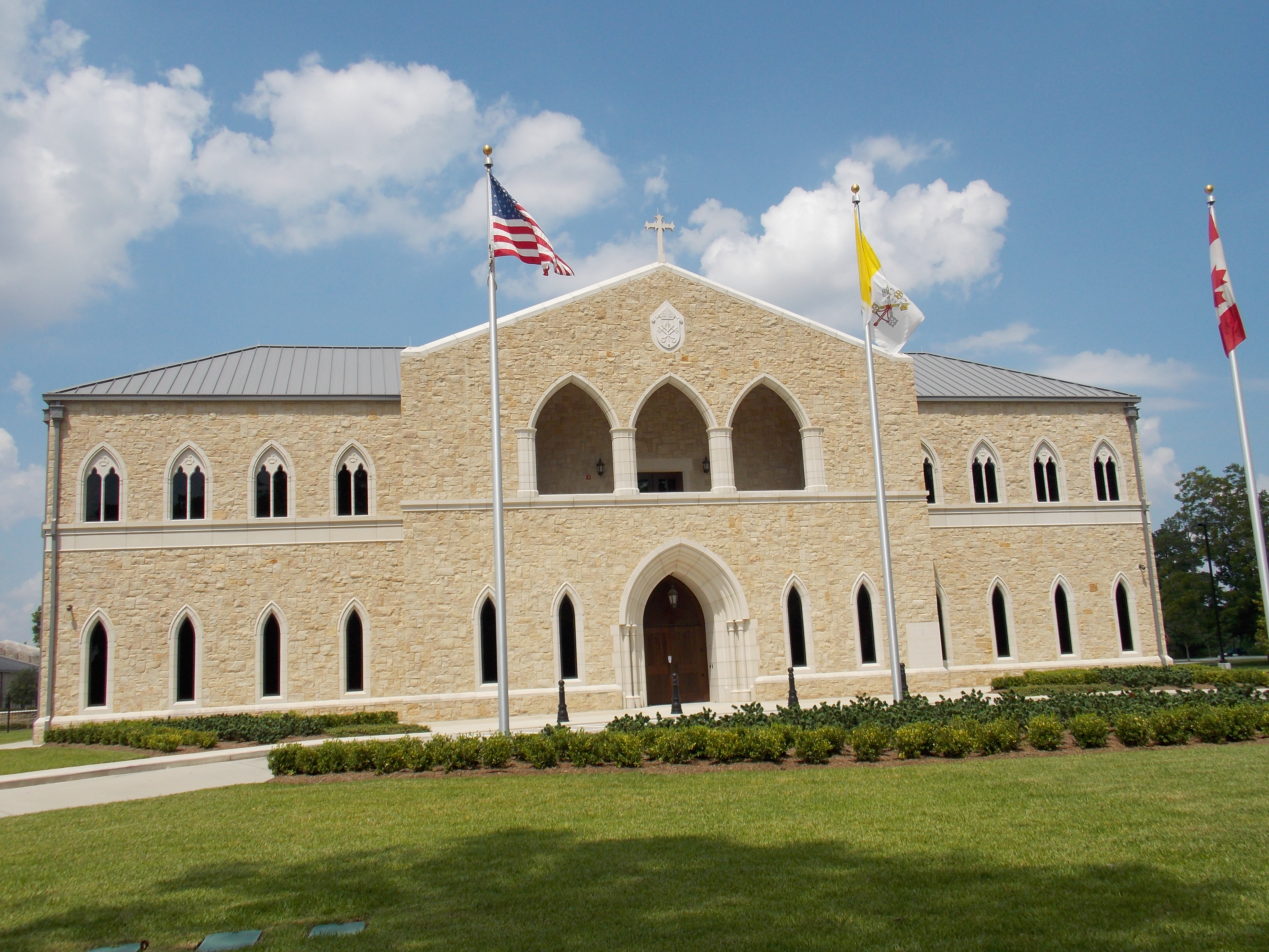 The Chancery building of the Personal Ordinariate of the Chair of Saint Peter in Houston, Texas.